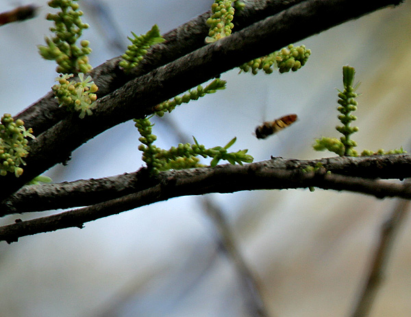 Indian gooseberry Phyllanthus emblica at Jayanti in Buxa Tiger Reserve in Jalpaiguri district of West Bengal, India.